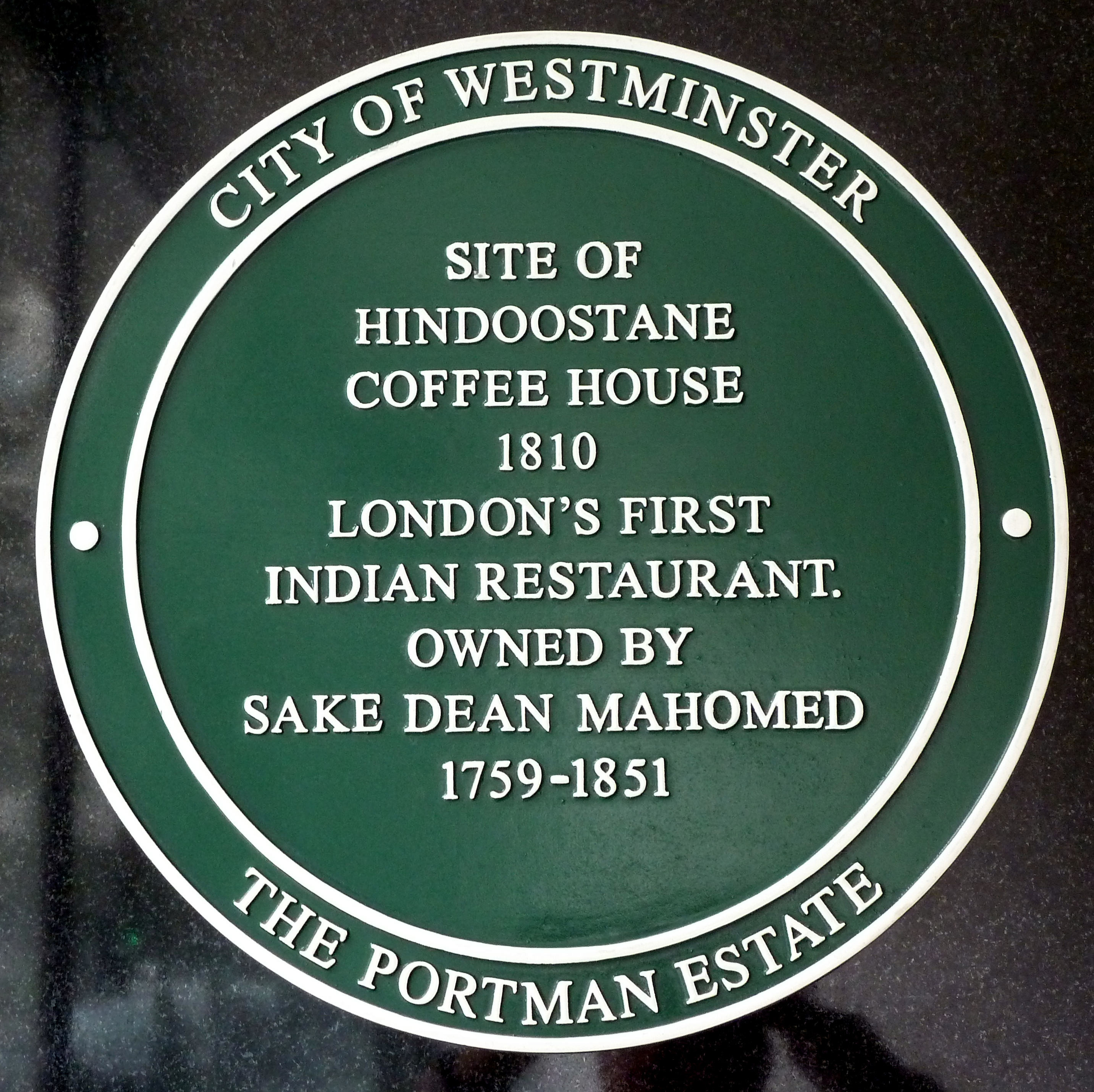 Plaque commemorating the Hindoostane Coffee House. Erected by the City of Westminster on George Road, Marylebone. It reads: Site of Hindoostane Coffee House 1810 London's first Indian restaurant Owned by Sake Dean Mahomed 1759-1851 City of Westminster The Portman Estate